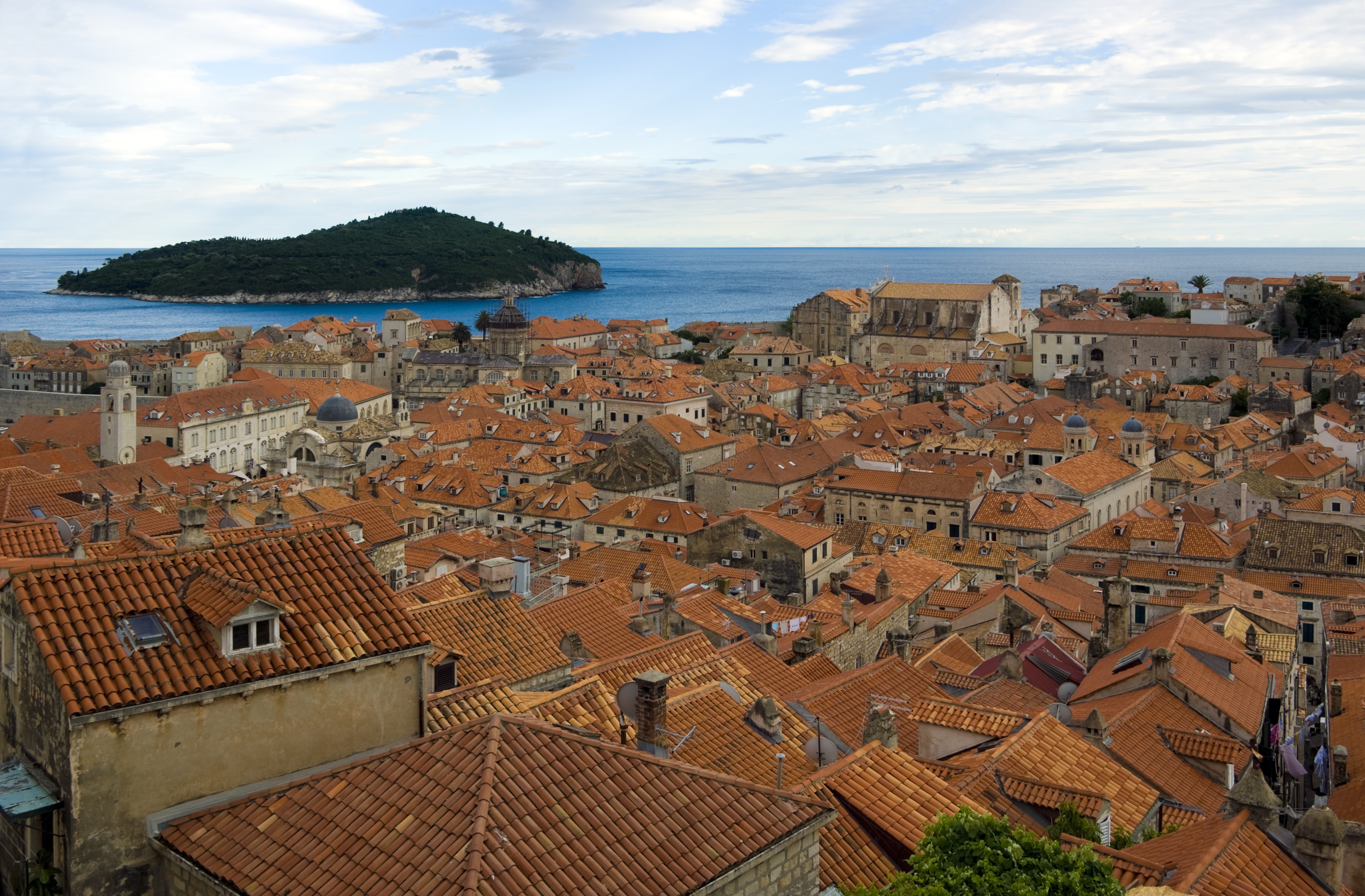 Dobrovnik - view from city walls, in the background the island Locrum